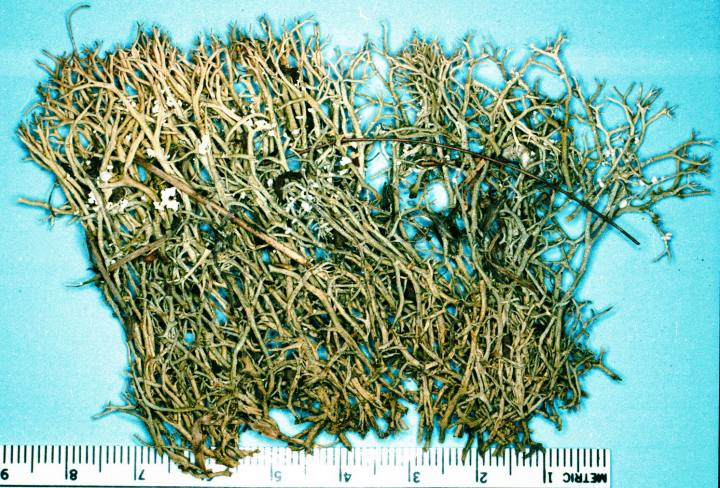 Cladonia furcata (Huds.) Schrad., 1794 (photograph of a herbarium specimen) Growing along stream in deciduous woods behind old mine along E side of Route 36, one mile N of Midland, Allegany County, Maryland, USA; collected and identified by A. Norden and B. Ball (No. 206, 31 Dec 1972); specimen is now in the Lichen Herbarium of the New York Botanical Garden. (millimeter scale)